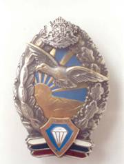 Bulgarian Parachutists Badge from the beginning of the 21 century.